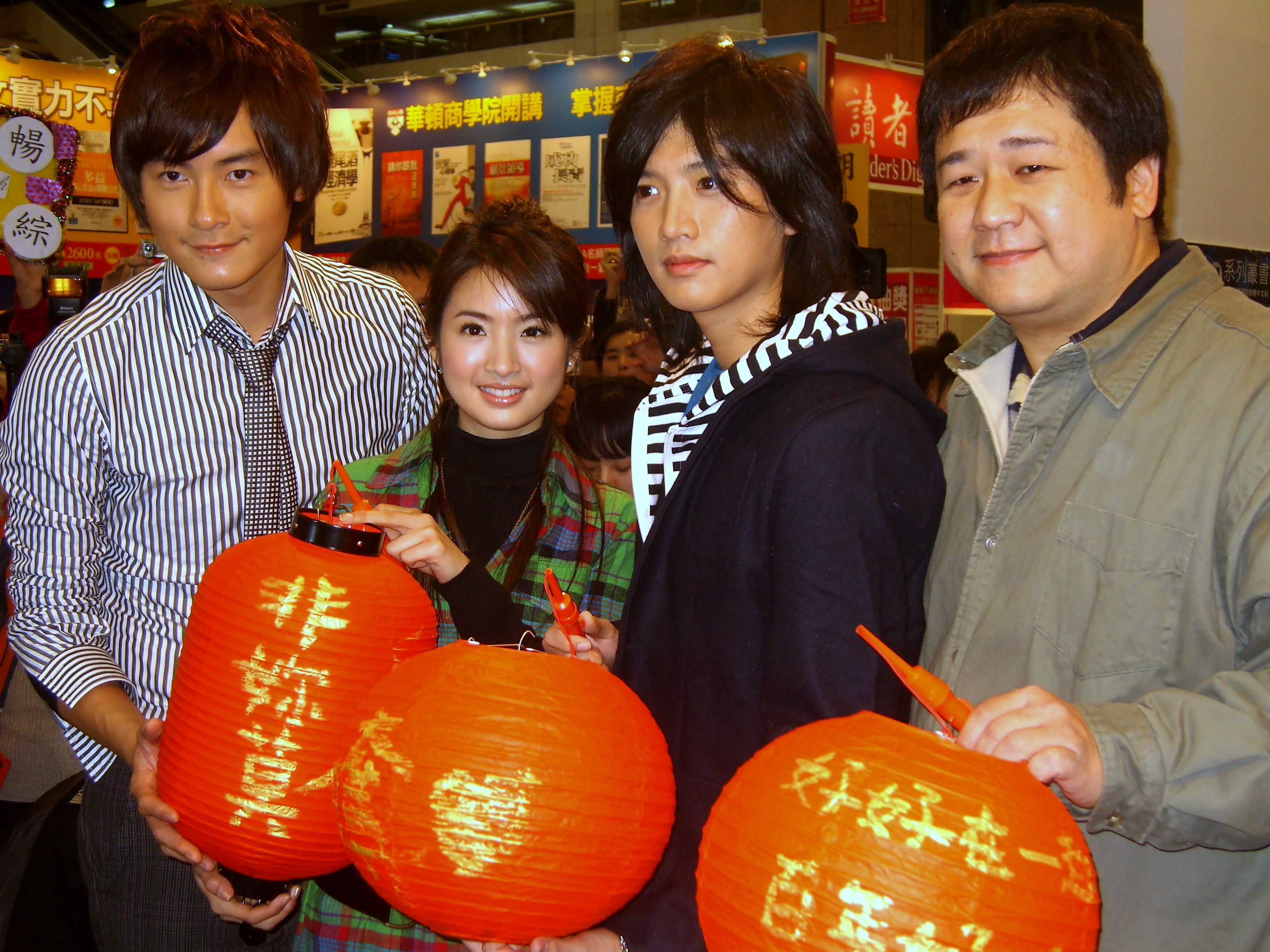 2008 Taipei International Book Exhibition: A signing event of Taiwanese TV Drama "They Kiss Again" presented by Cité Group Publishing.